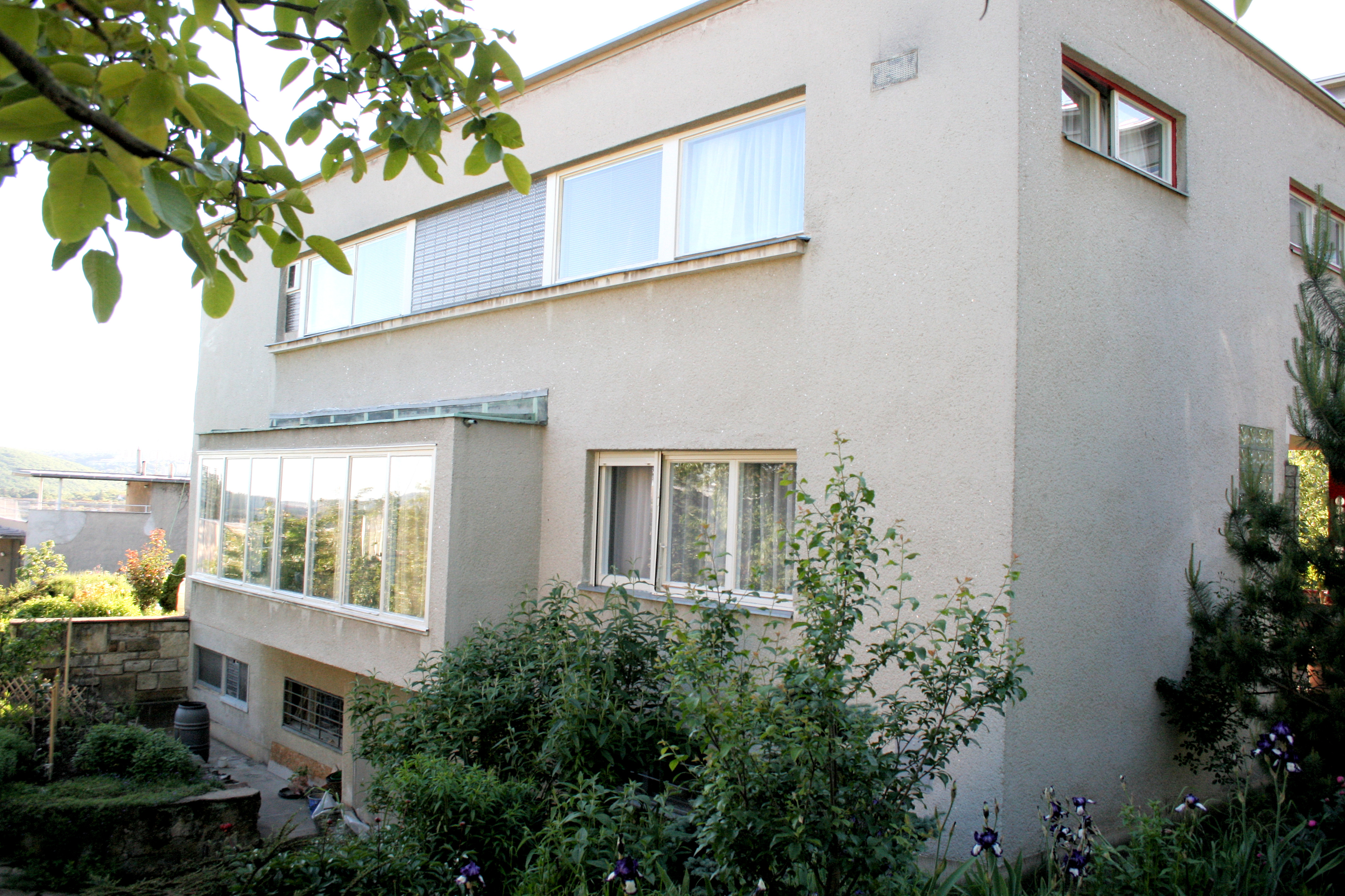 Villa Patočka, Brno, Czech Republic. Built in 1935-1936 by Jiří Kroha. Česky: Patočkova vila z let 1935-1936 podle plánu architekta Jiřího Krohy. Kaplanova 11, Brno (Stránice). Boční pohled na východní stěnu vily.